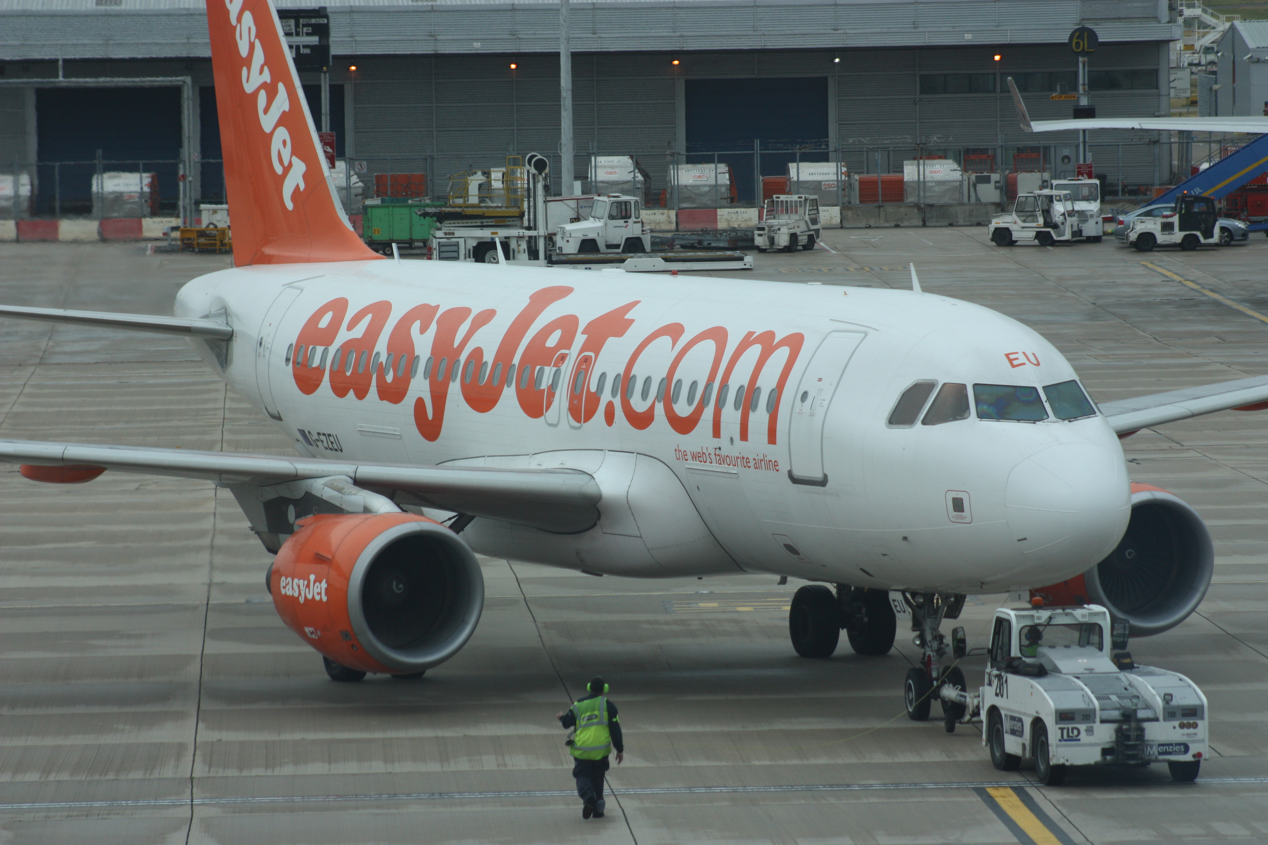 Easyjet (G-EZEU) Airbus A319 aircraft, London Stansted Airport, Essex, England, July 2010